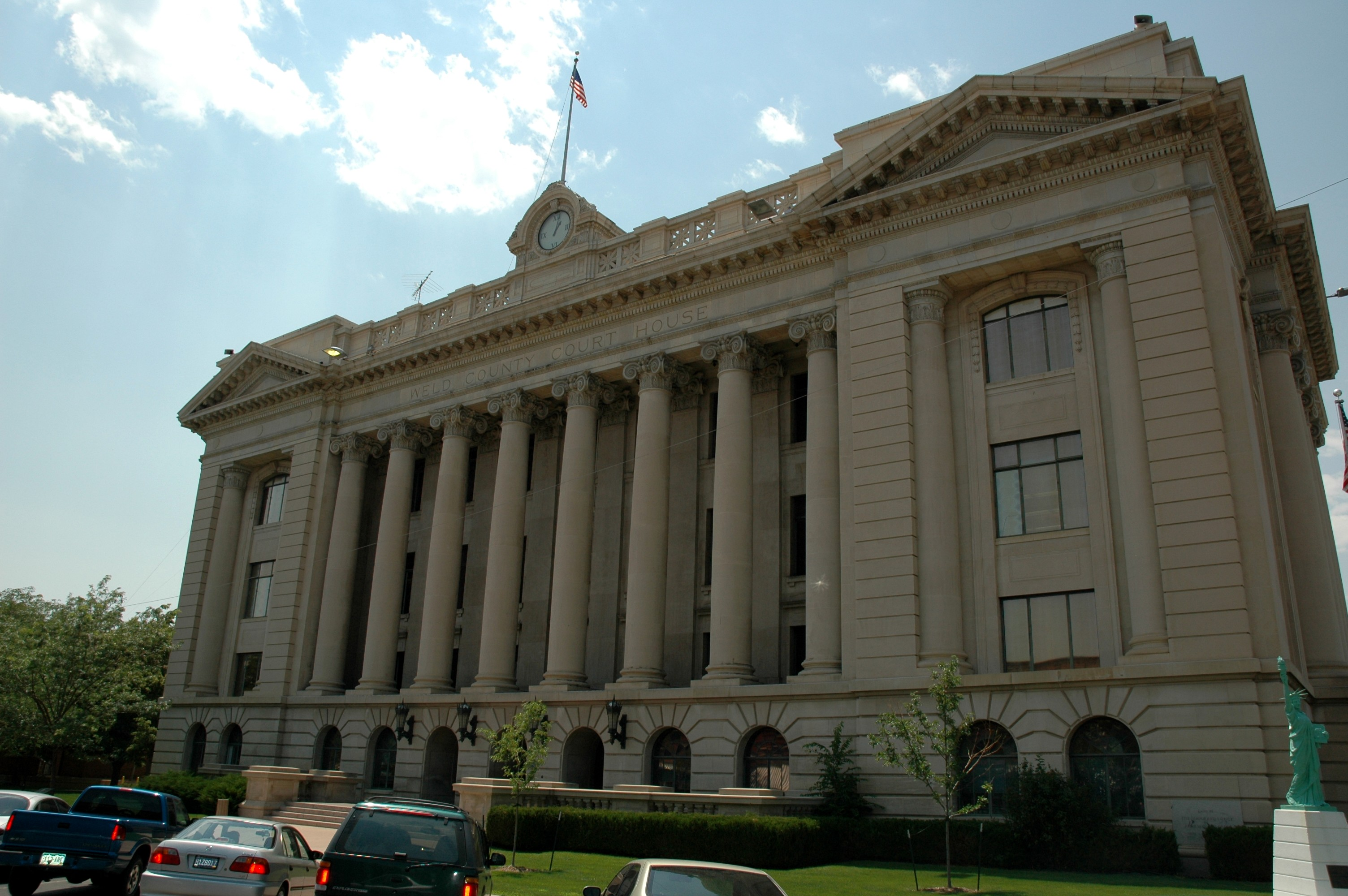 Front of the Weld County Courthouse, located at the intersection of Ninth Street and Ninth Avenue in Greeley, Colorado, United States. Built in 1917, the courthouse is listed on the National Register of Historic Places.